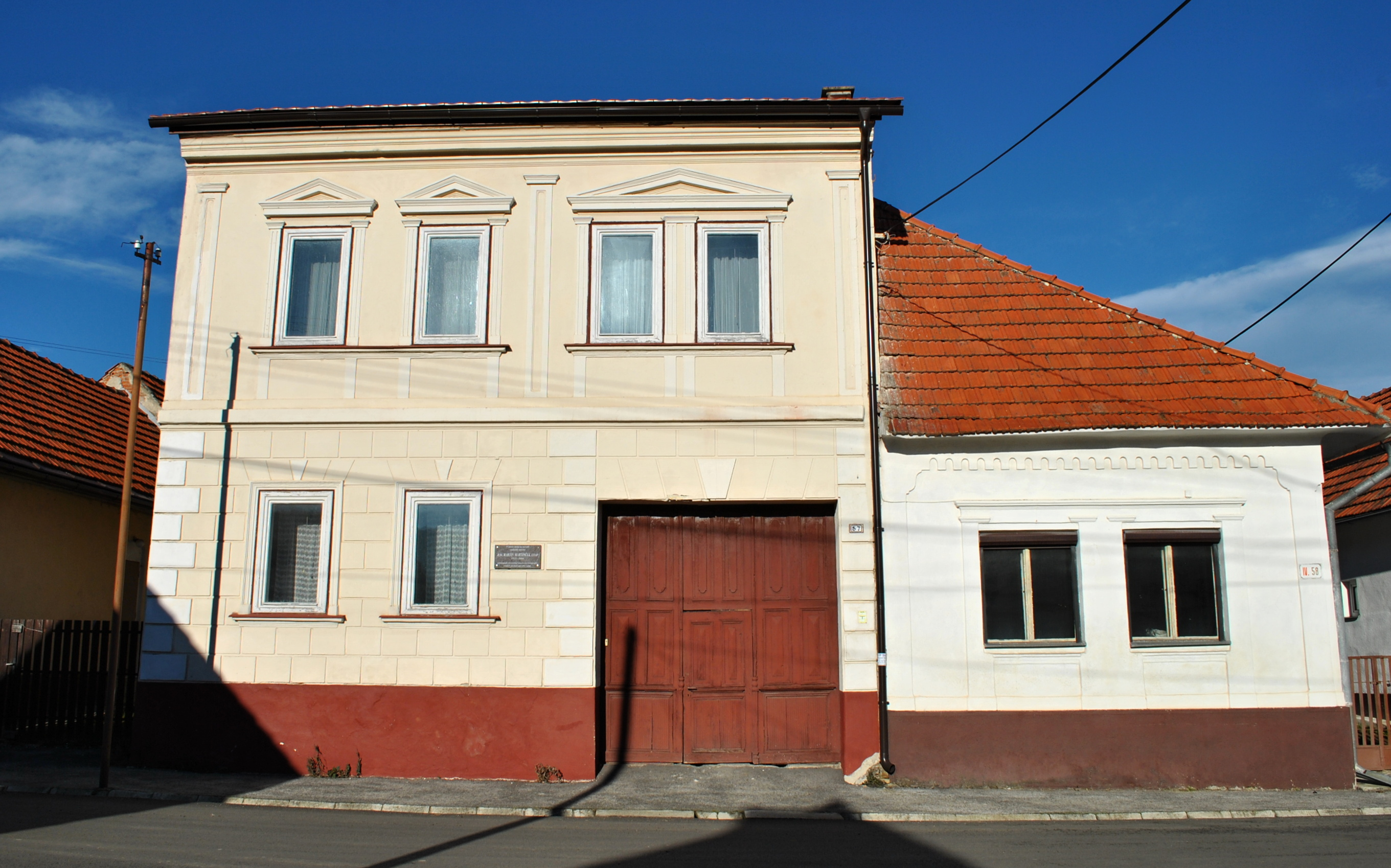 Natal home of the photographer Martin Martinček in Liptovský Peter